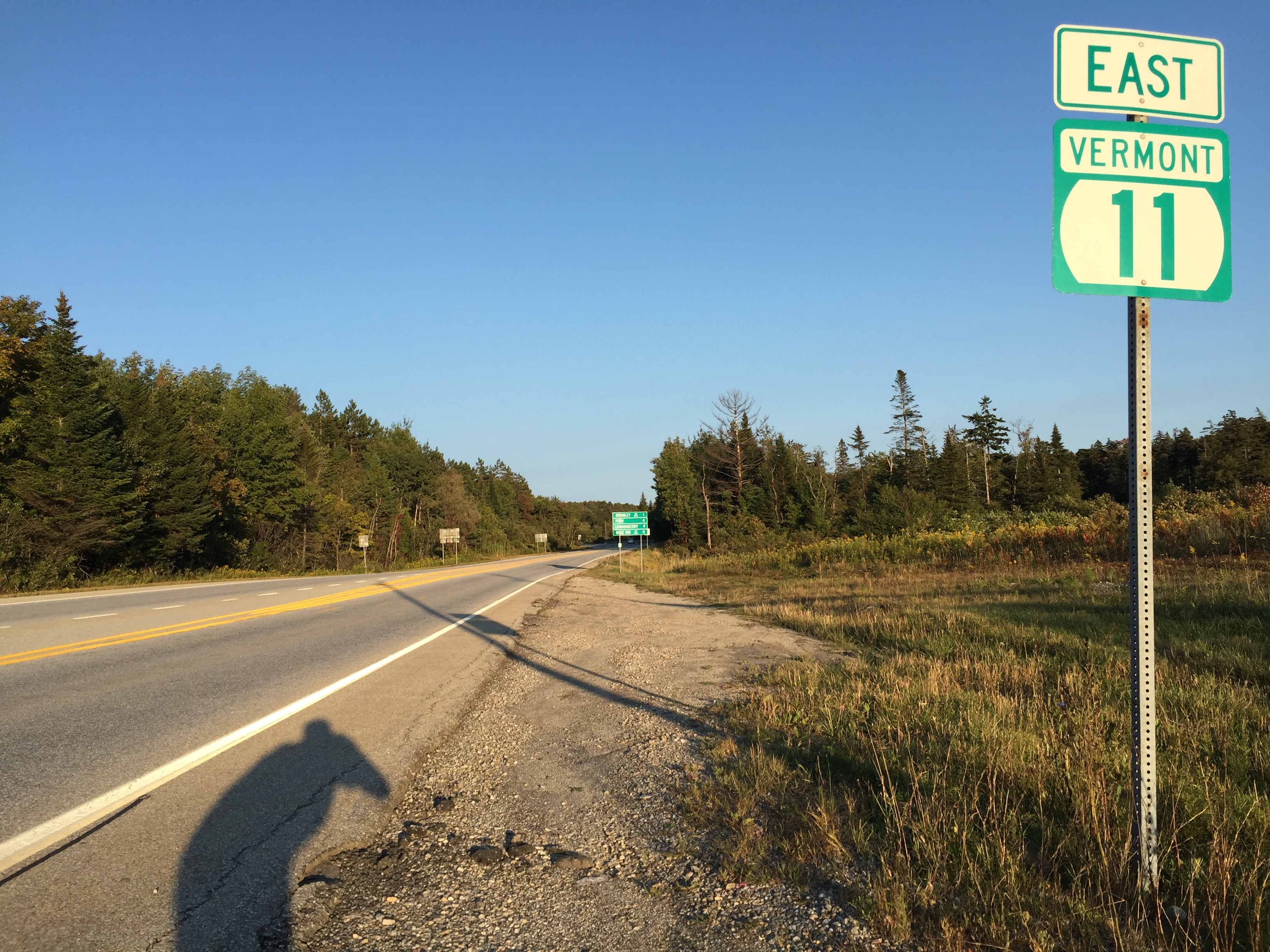 View east along Vermont State Route 11 at Vermont State Route 30 in Winhall, Bennington County, Vermont